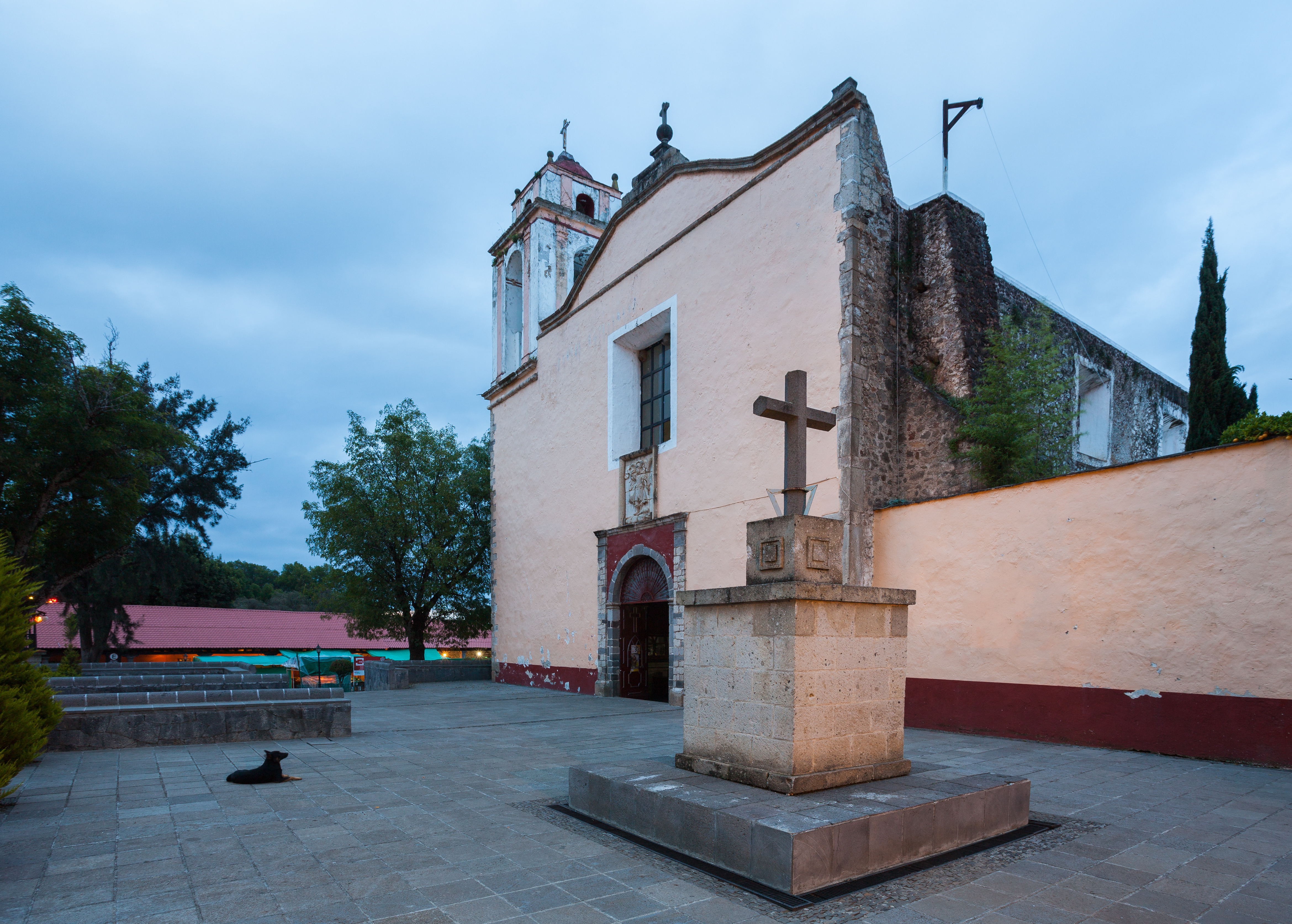 Church of St.John the Baptist, Huasca de Ocampo, Hidalgo, Mexico